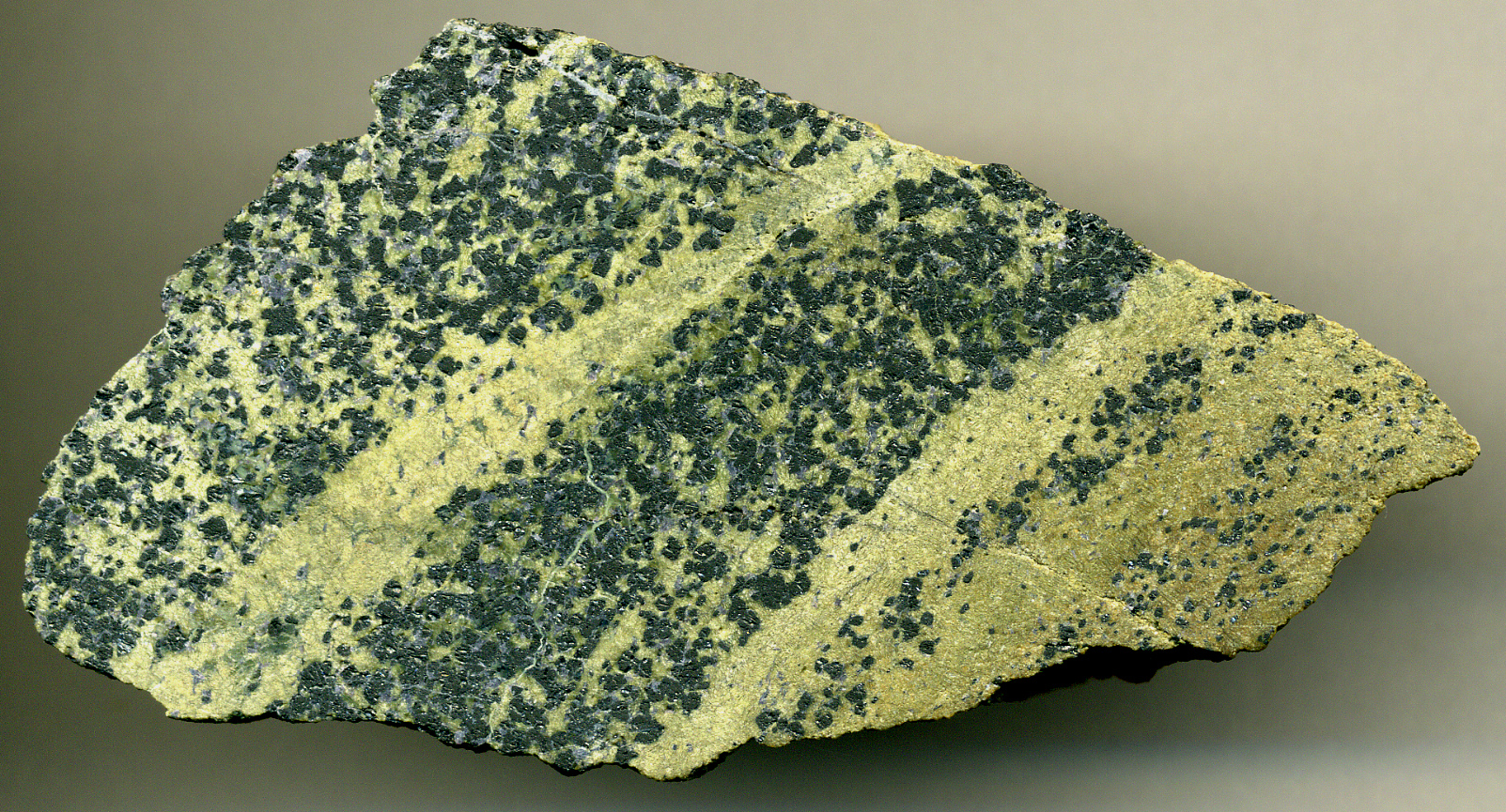 Chromitic serpentinite (7.9 cm across) from the Kraubath Complex (Speik Complex) in the Eastern Alps of Austria. The Kraubauth Complex is an ultramafic massif dominated by metamorphosed dunites & harzburgites. The original rock (protolith) was a Proterozoic-Early Paleozoic upper mantle dunite peridotite that has been multiply metamorphosed during the Devonian, Permian, and Mesozoic. Greenish = serpentine; black = chromite (FeCr2O4 - iron chromium oxide). Locality: Sommergraben, Murz River Valley area, Muralpen, Eastern Alps, central Styria Province, Austria. Ophiolites are fragments of oceanic lithosphere (basaltic crust + uppermost mantle) that have been metamorphosed and plastered onto the edges of continental lithospheric plates by obduction (the opposite of subduction).